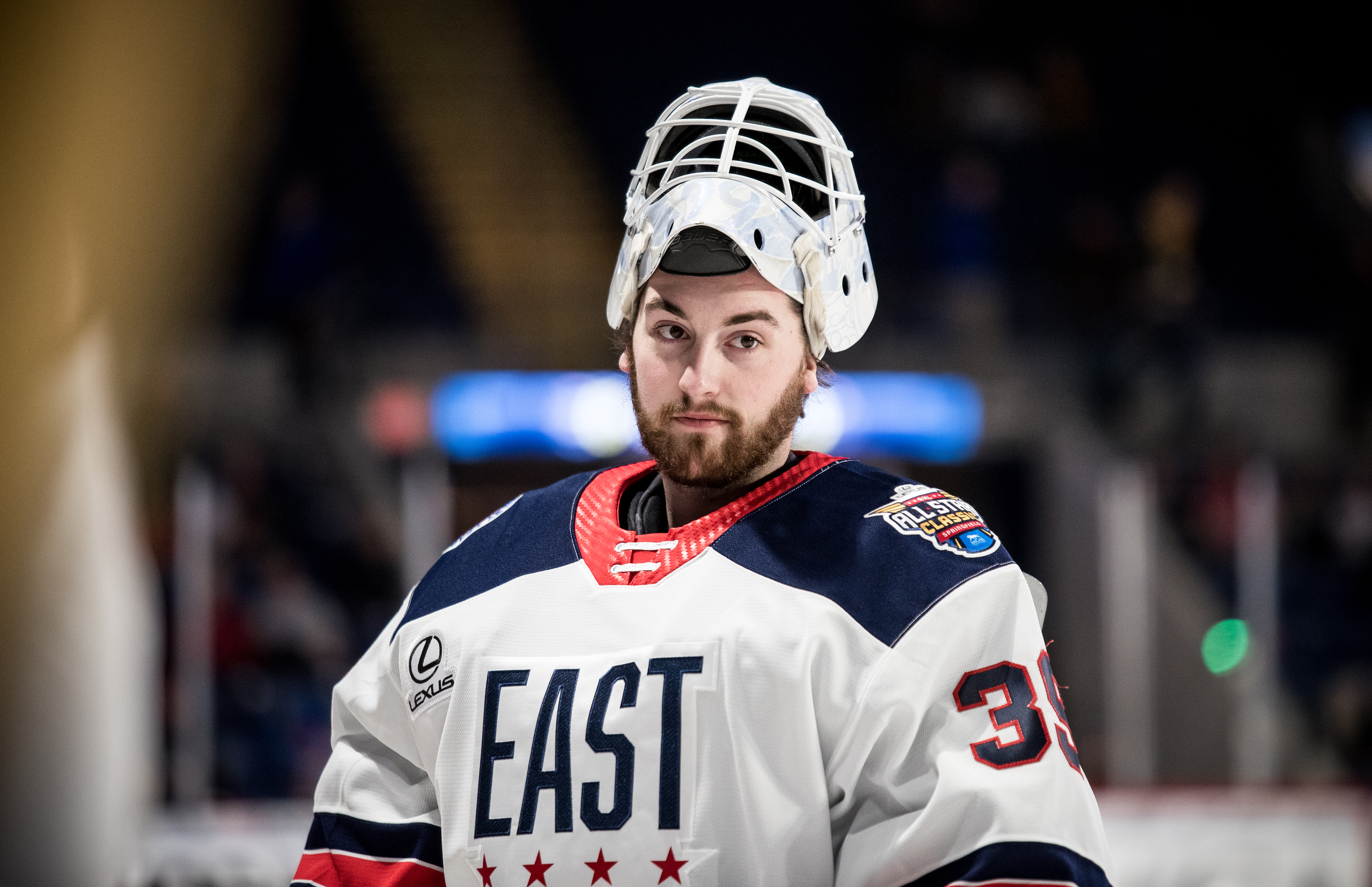 Photo by: China Wong